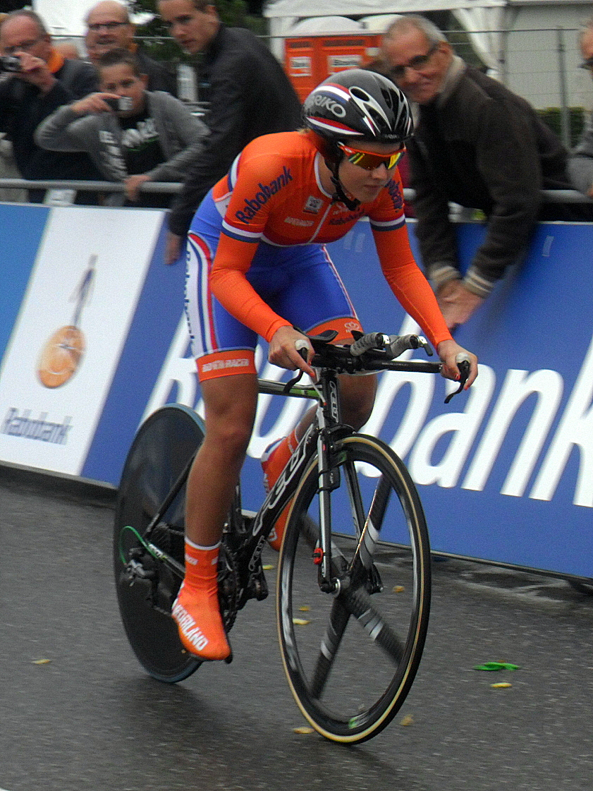 Demi de Jong wins the bronze medal at the junior World Championships in Valkenburg, Netherlands, in 2012